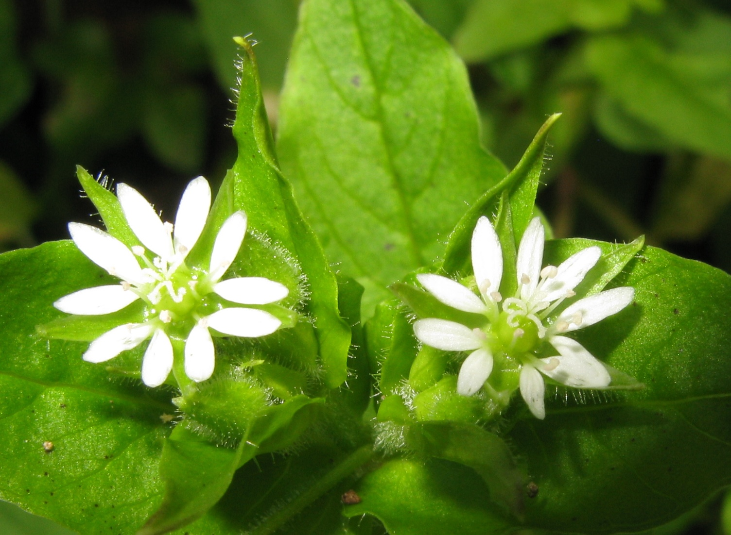 Stellaria aquatica, Aizu area, Fukushima pref.,Jpan